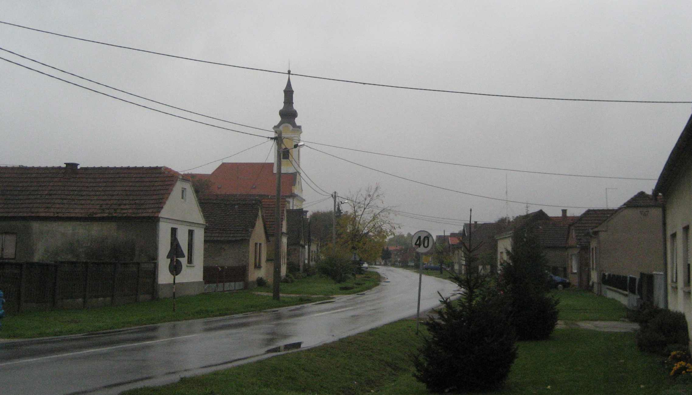 Hlebine, Village in North Croatia